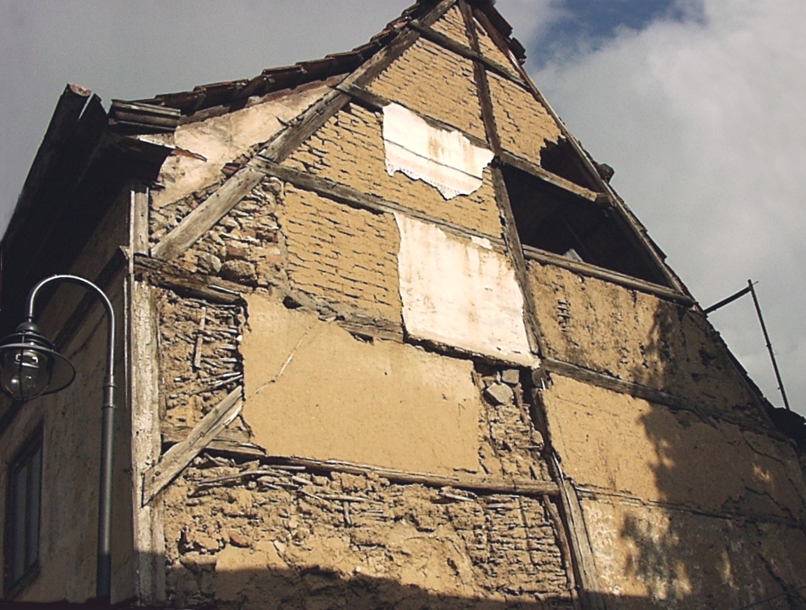 Half-timbered house with exposed timber construction with infill of both wattle and daub and mud brick in Bad Langensalza, Germany.